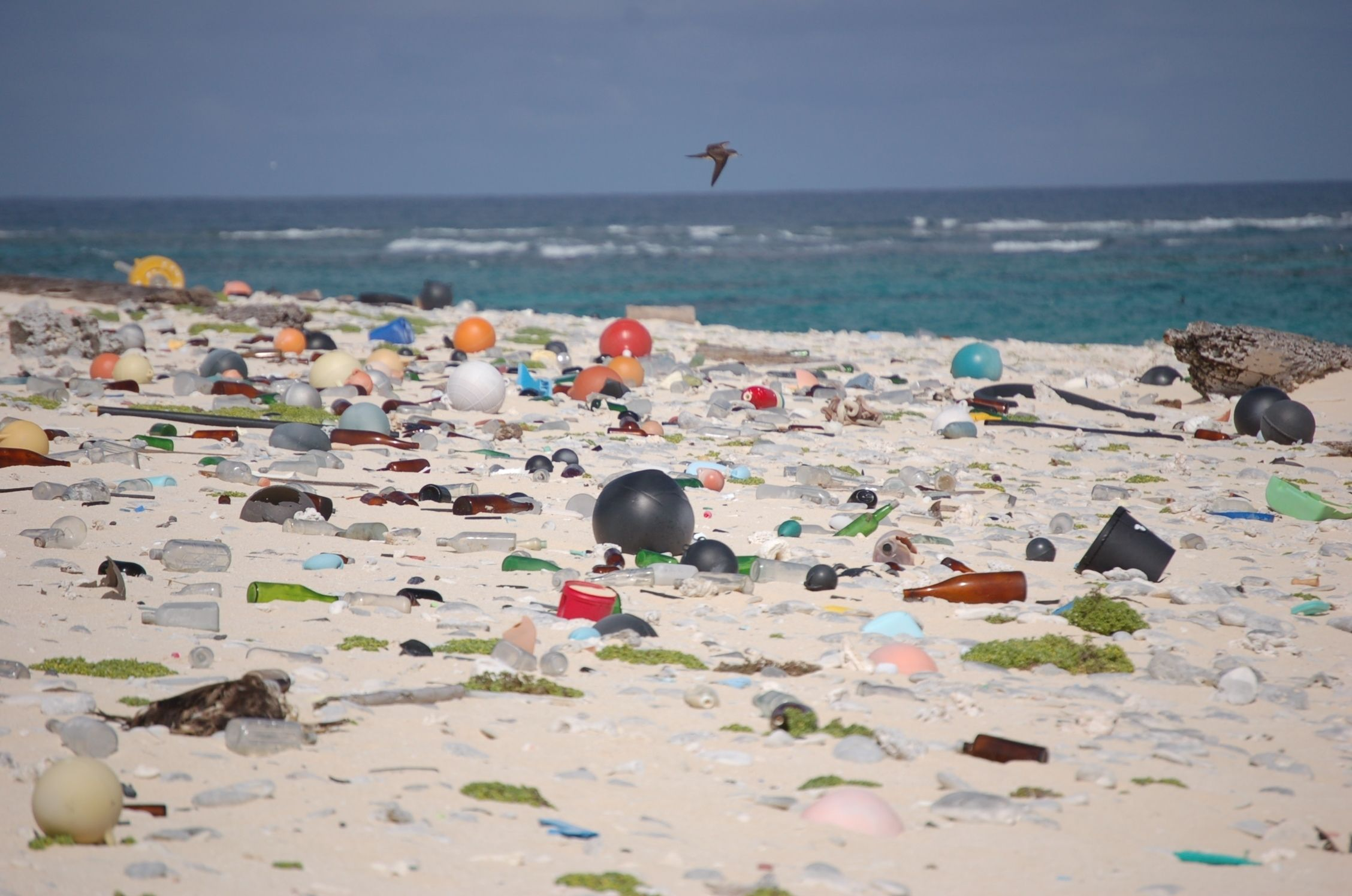 Marine debris litters a beach on Laysan Island in the Hawaiian Islands National Wildlife Refuge, where it washed ashore. (Susan White/USFWS)